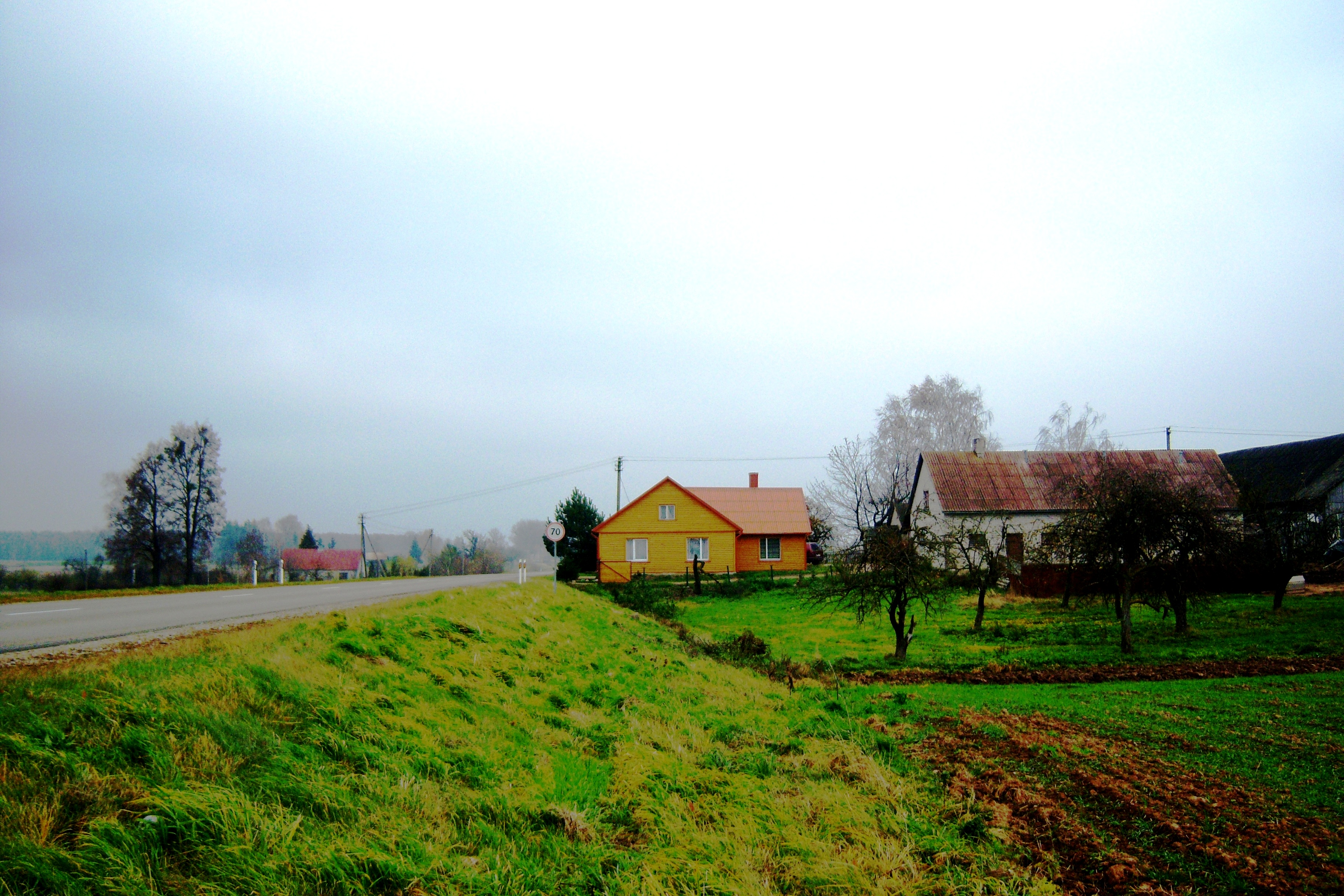 Bačkininkai, Prienai district. Lithuania